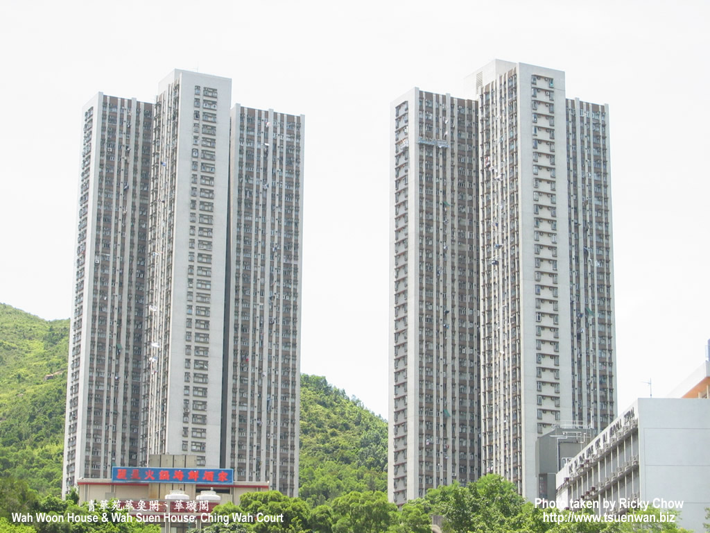 Wah Woon House and Wah Suen House, Ching Wah Court, Tsing Yi, New Territories, Hong Kong